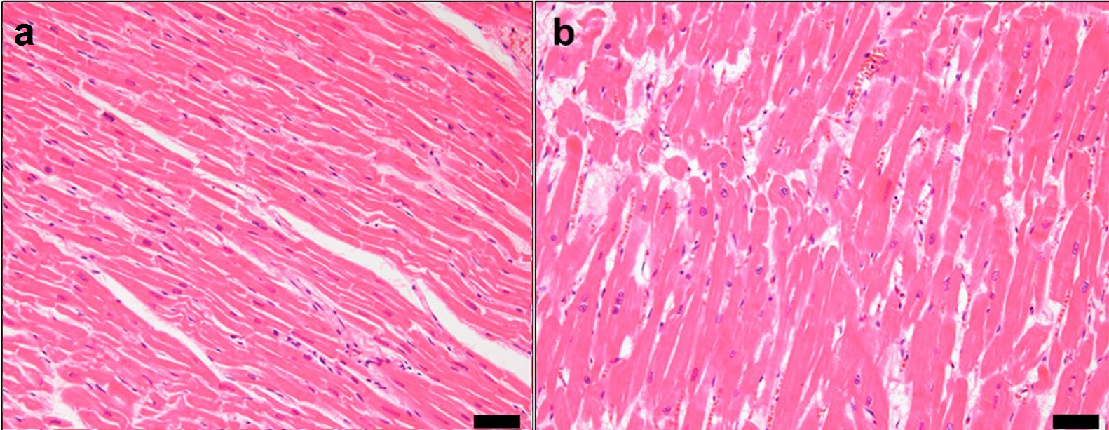 Histopathology of (a) normal myocardium and (b) myocardial hypertrophy. Scale bar indicates 50 μm.- a) Young accident case (23-year-old male). Myocardial structure is maintained without pathology.- b) Hypertrophic heart failure case (46-year-old male). Hypertrophic myocytes with enlarged nuclei are regularly arrayed with slight interstitial fibrosis.